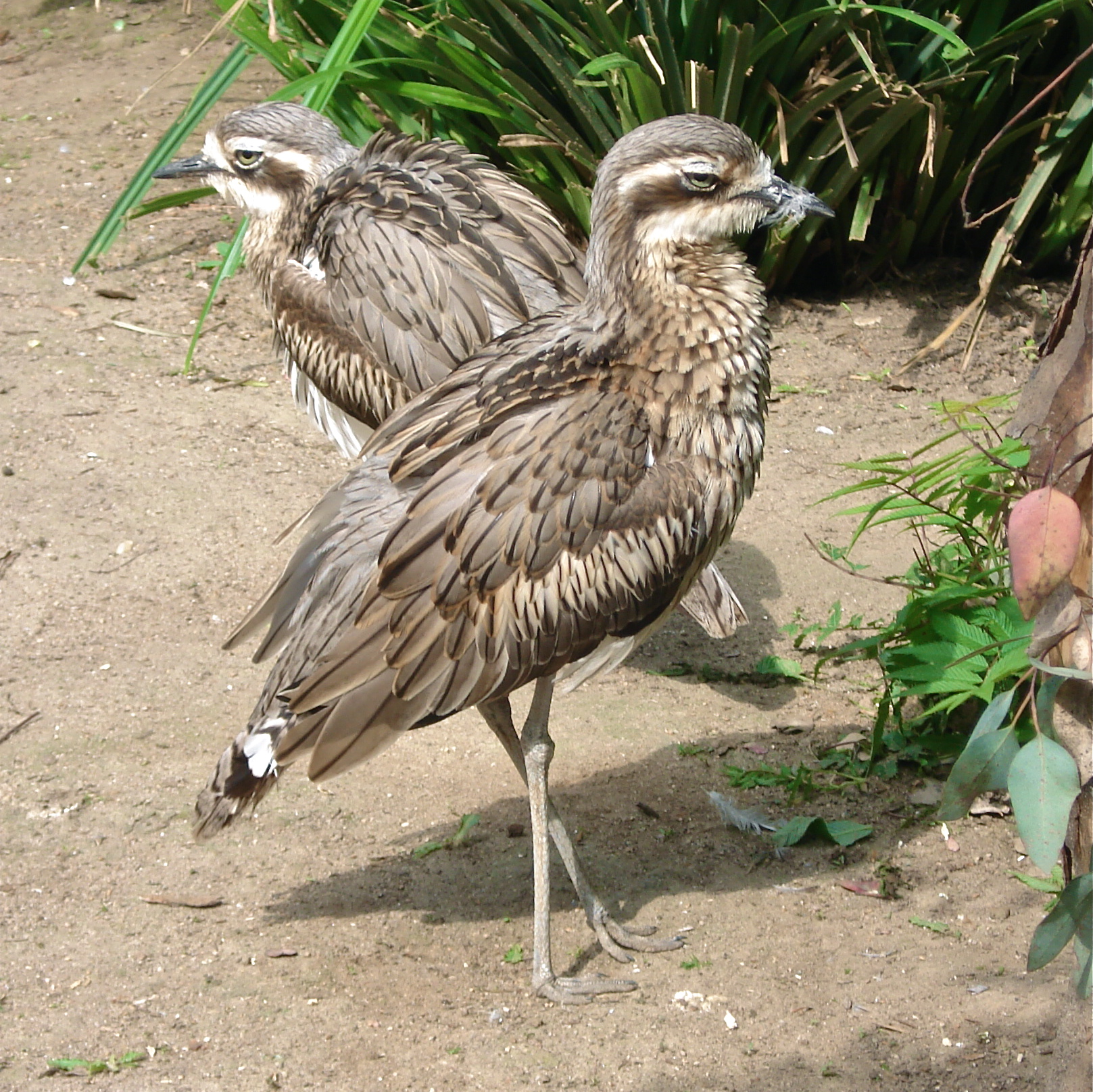 Bush Stone-Curlews in the Wilhelma zoological garden of Stuttgart in Germany.